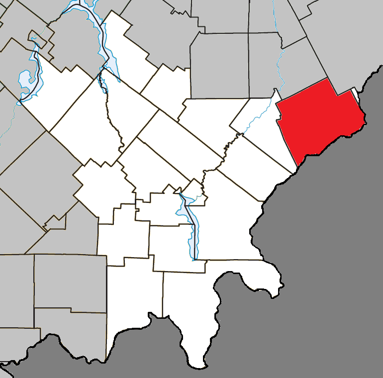 Location of Saint-Robert-Bellarmin, Quebec within Le Granit Regional County Municipality.